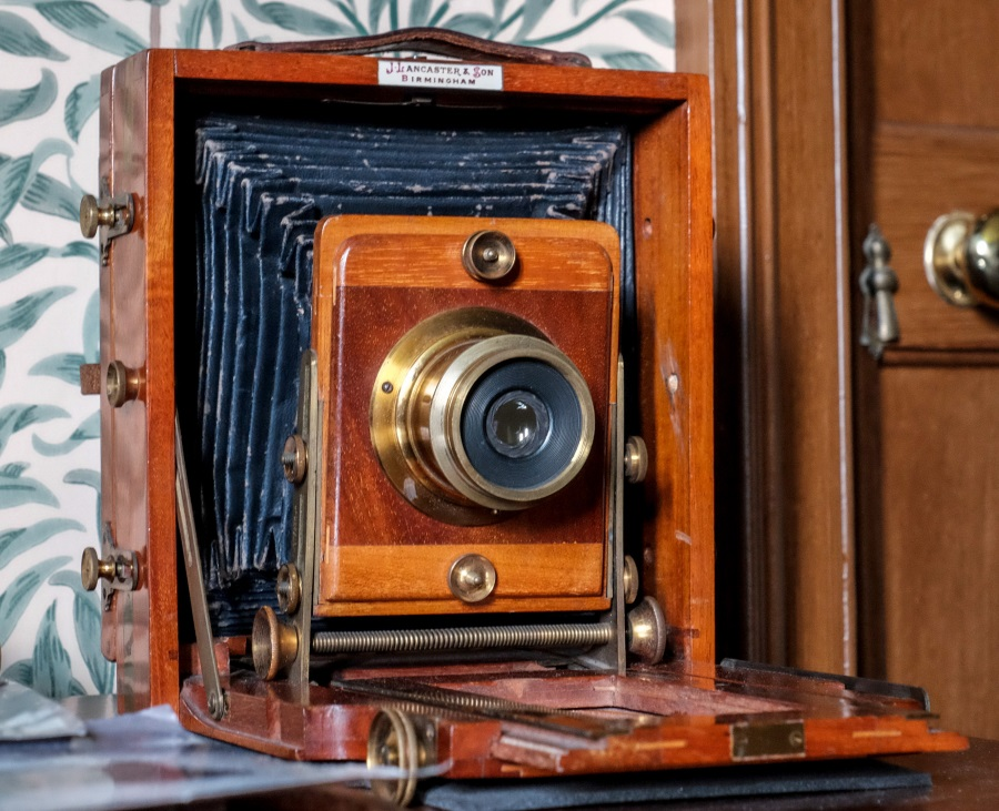 Lancaster camera (late 1880s?) displayed in Alice Dryden's bedroom at Canons Ashby House